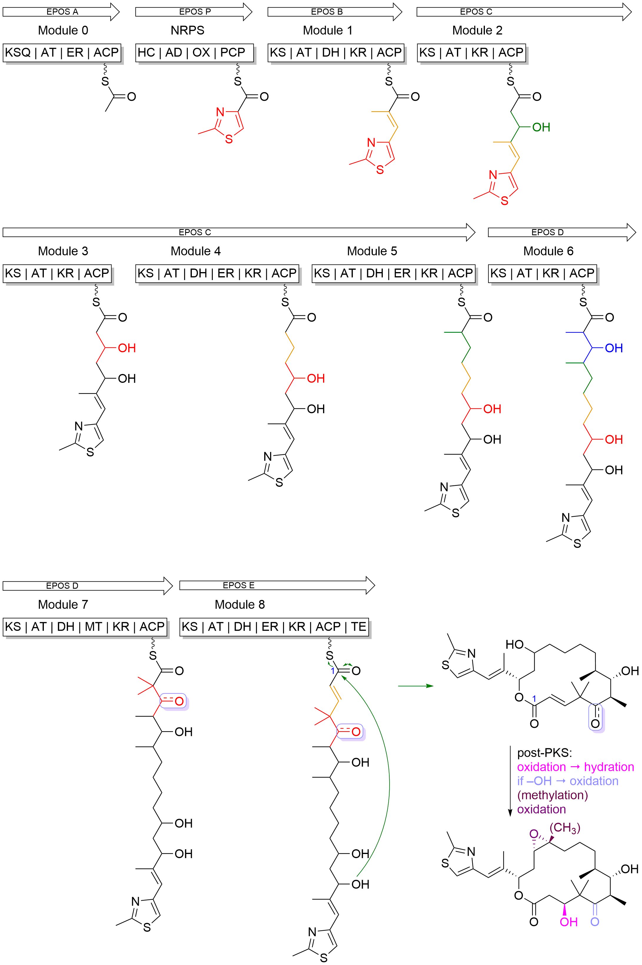 Biosynthesis of epothilones A and B according to István Molnár, Thomas Schupp, et al. in 2000. The file was made with ChemBioDraw Ultra 14. The digital object identifier of the reference is This image is intended to replace the original ones ( and made by Cuigy because they are in graphics interchange format having lower quality. In addition, Module 7 contains an MT domain (methyltransferase) instead of an ER one (enoylreductase).